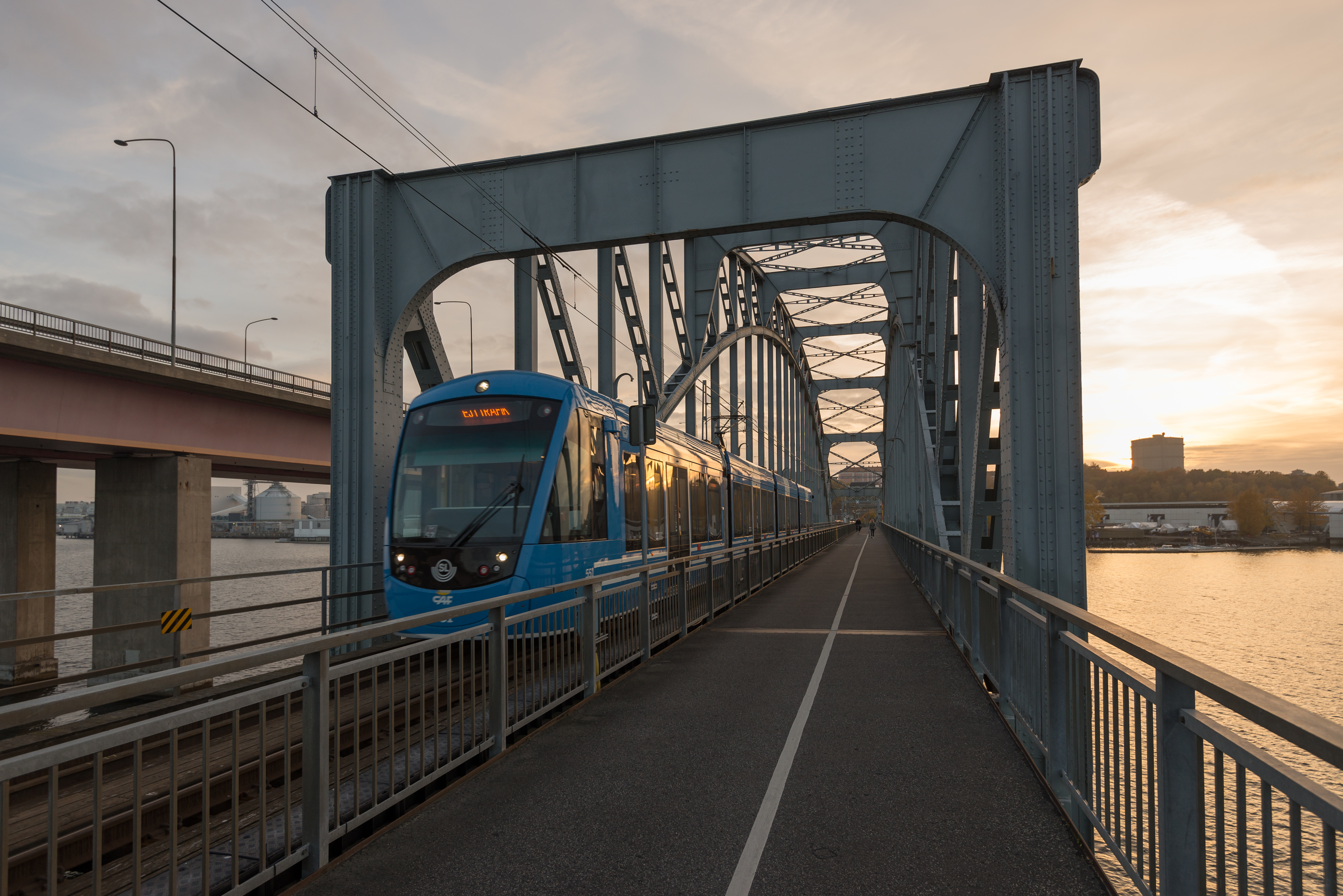 A new Type A36 tram on Lidingöbanan crossing Lidingöbron (the Lidingö bridge) 25 October 2015. Lidingöbanan (the Lidingö line) was reopened on 25 October after being closed since summer 2013 for engineering works, modernisation and installation of new equipment.